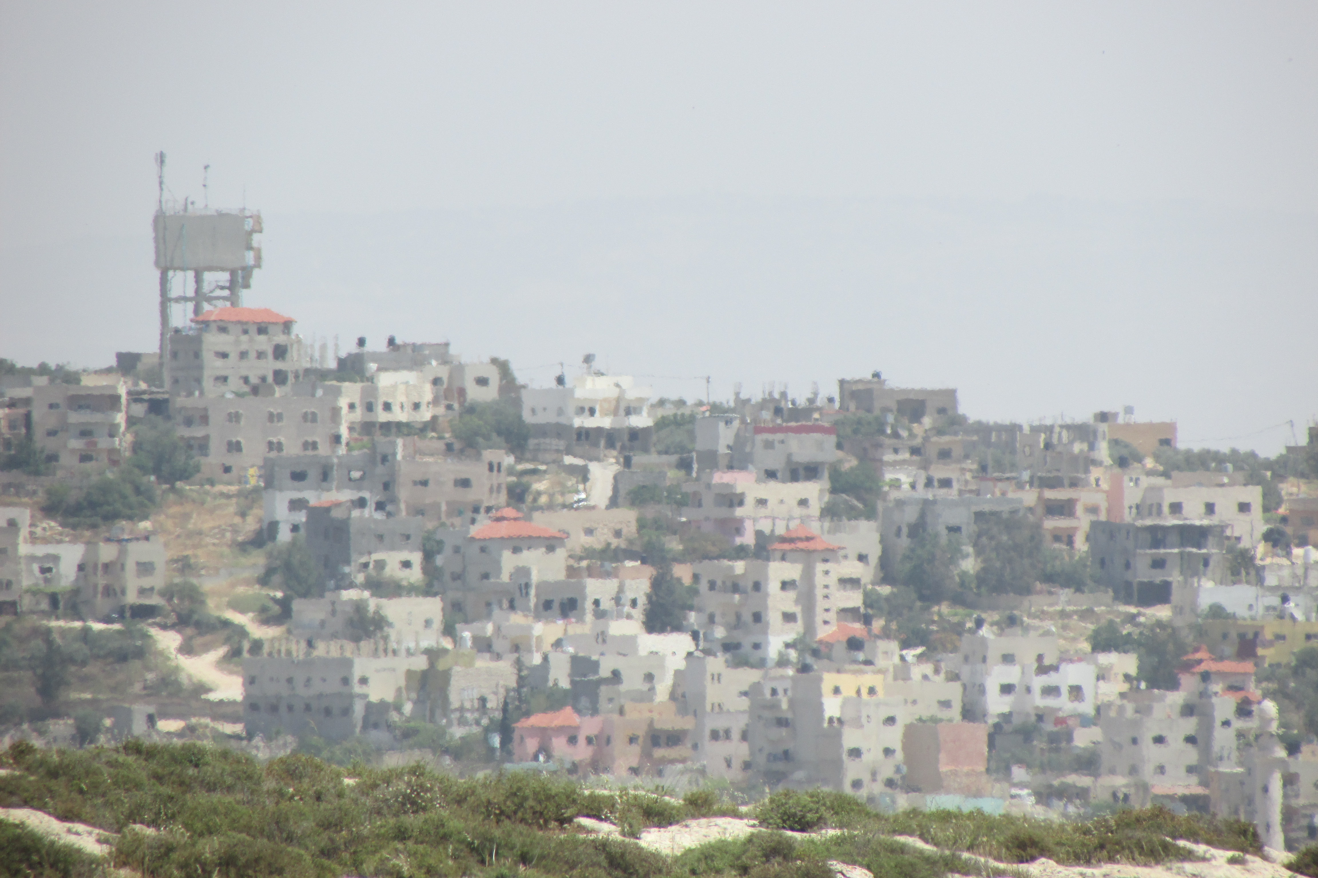 Beit Dajan, Nablus from the west